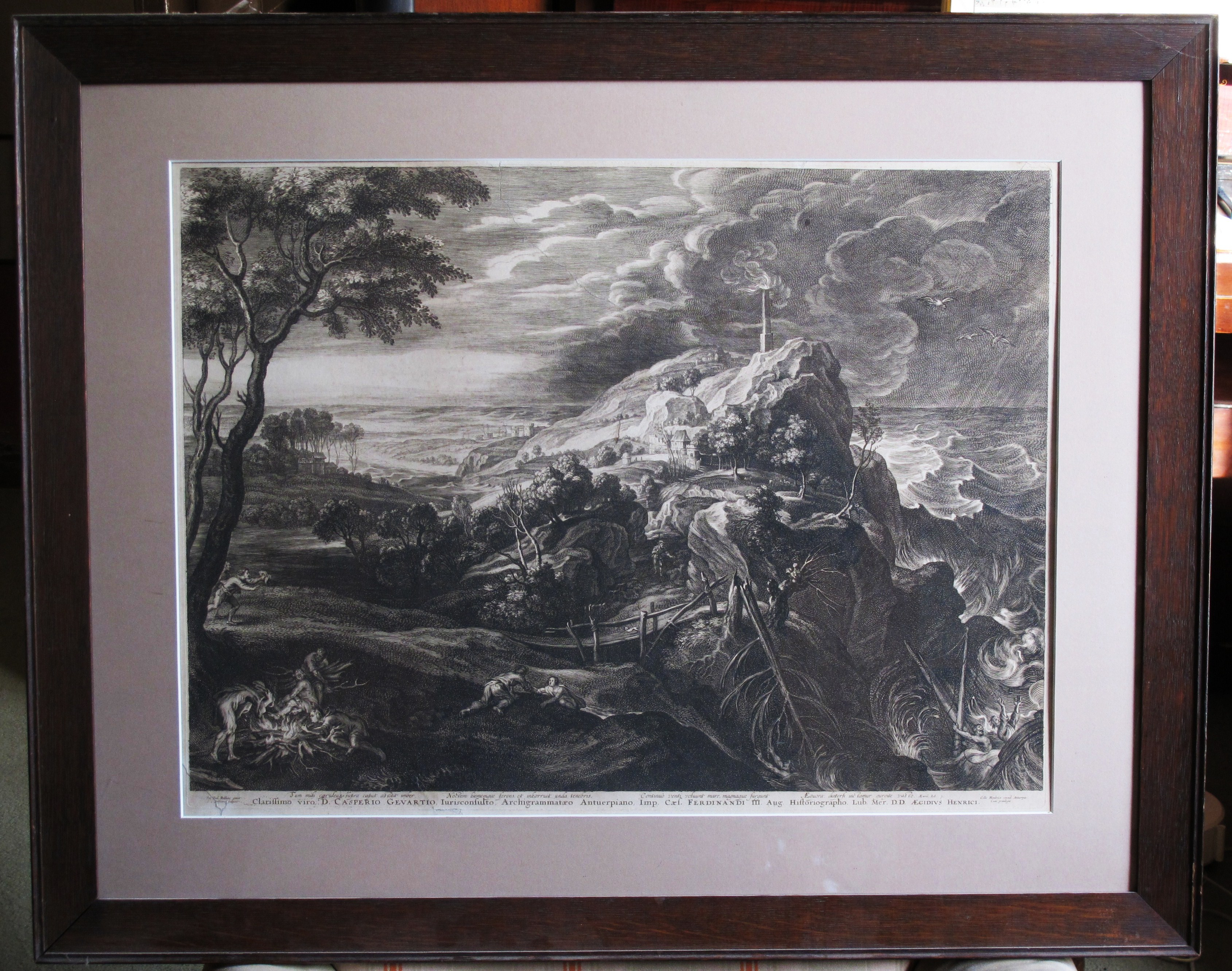 Shipwreck of Aeneas